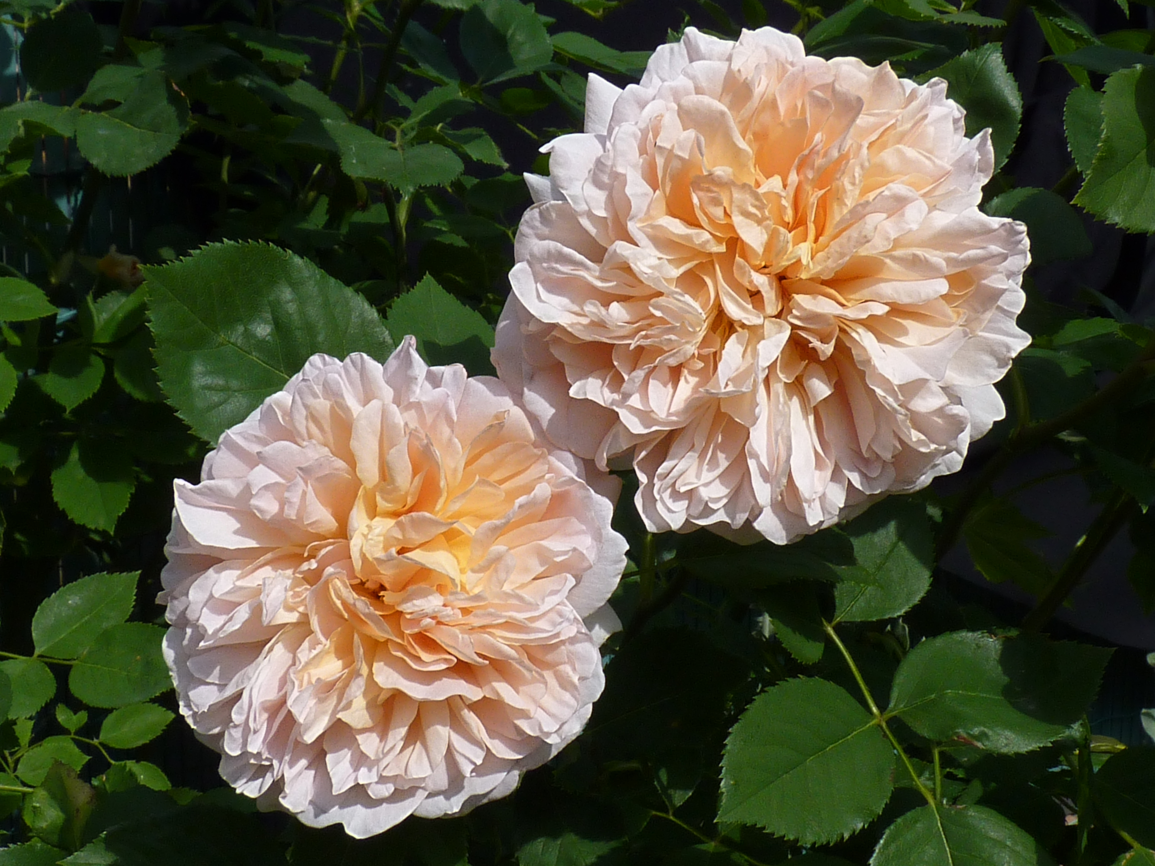 Rosa 'Tea Clipper' (David Austin, 2006), in a garden in Belgium.